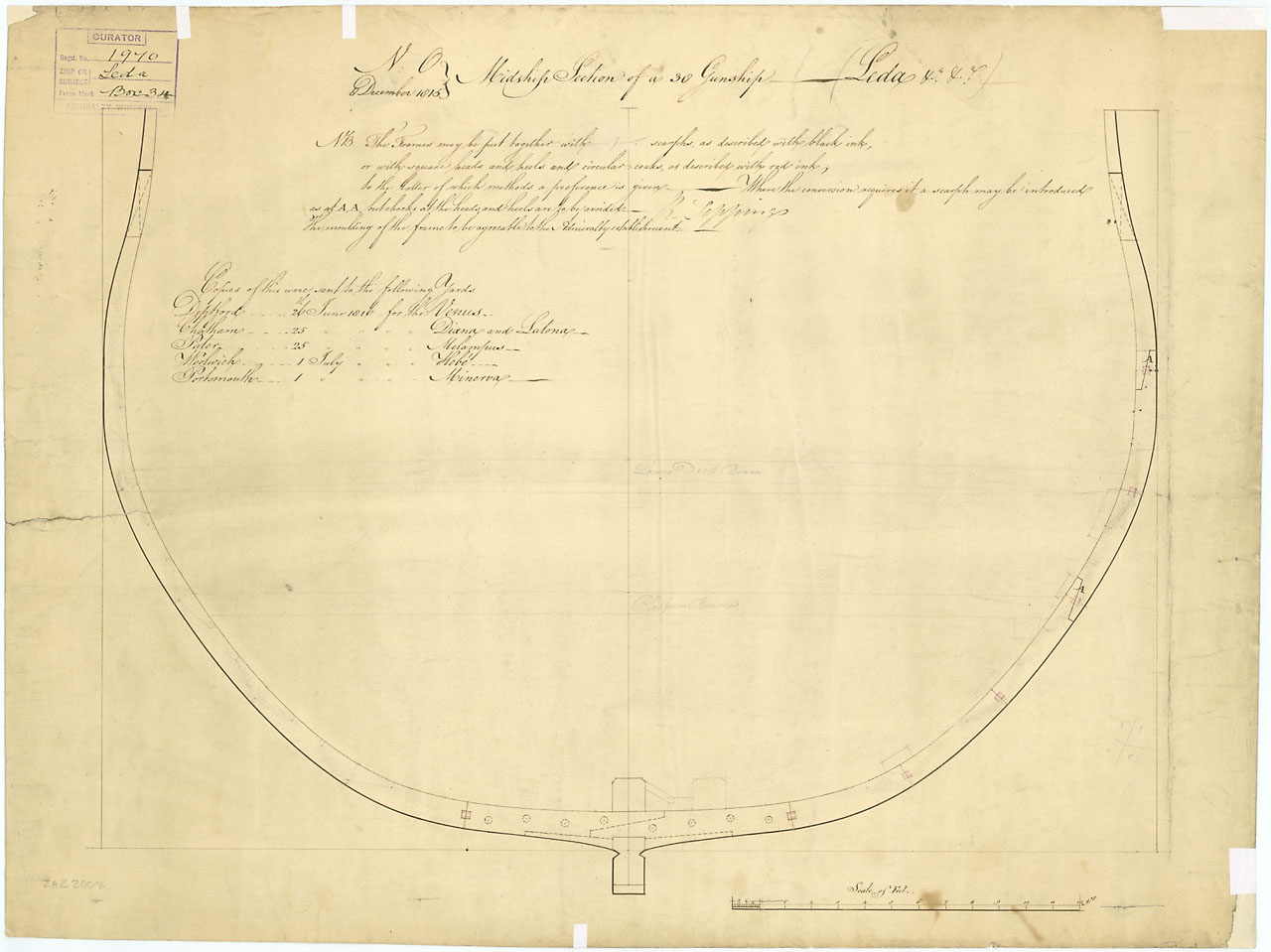 Leda (1800); Venus (1820); Diana (1822); Latona (1821); Melampus (1820); Hebe (1826); Minerva (1820) Scale: 1:24. Plan showing the midship section for Leda (1800), with copies sent to the various dockyards for Venus (1820), Diana (1822), Latona (1821), Melampus (1820), Hebe (1826), and Minerva (1820), all 38-gun Fifth Rate Frigates. Signed by Robert Seppings [Surveyor of the Navy, 1813-1832]. LEDA 1800